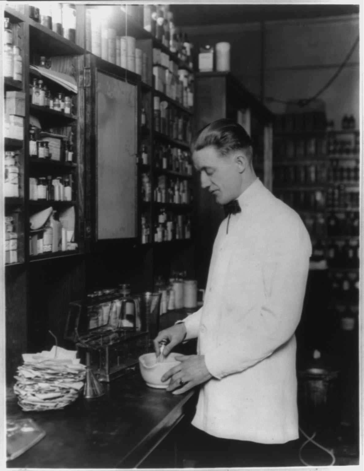 Title: The drug clerk Abstract/medium: 1 photographic print.